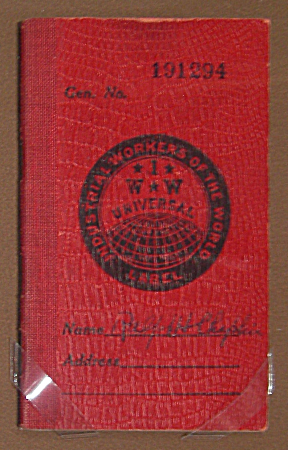 Ralph Chaplin's IWW membership booklet, Washington State History Museum. Image is reworked a bit with GIMP: to avoid reflections, I had to take the picture from rather far to the side. Then I used GIMP to correct the perspective and for its "Unsharp mask" which did a lot to make this more legible.